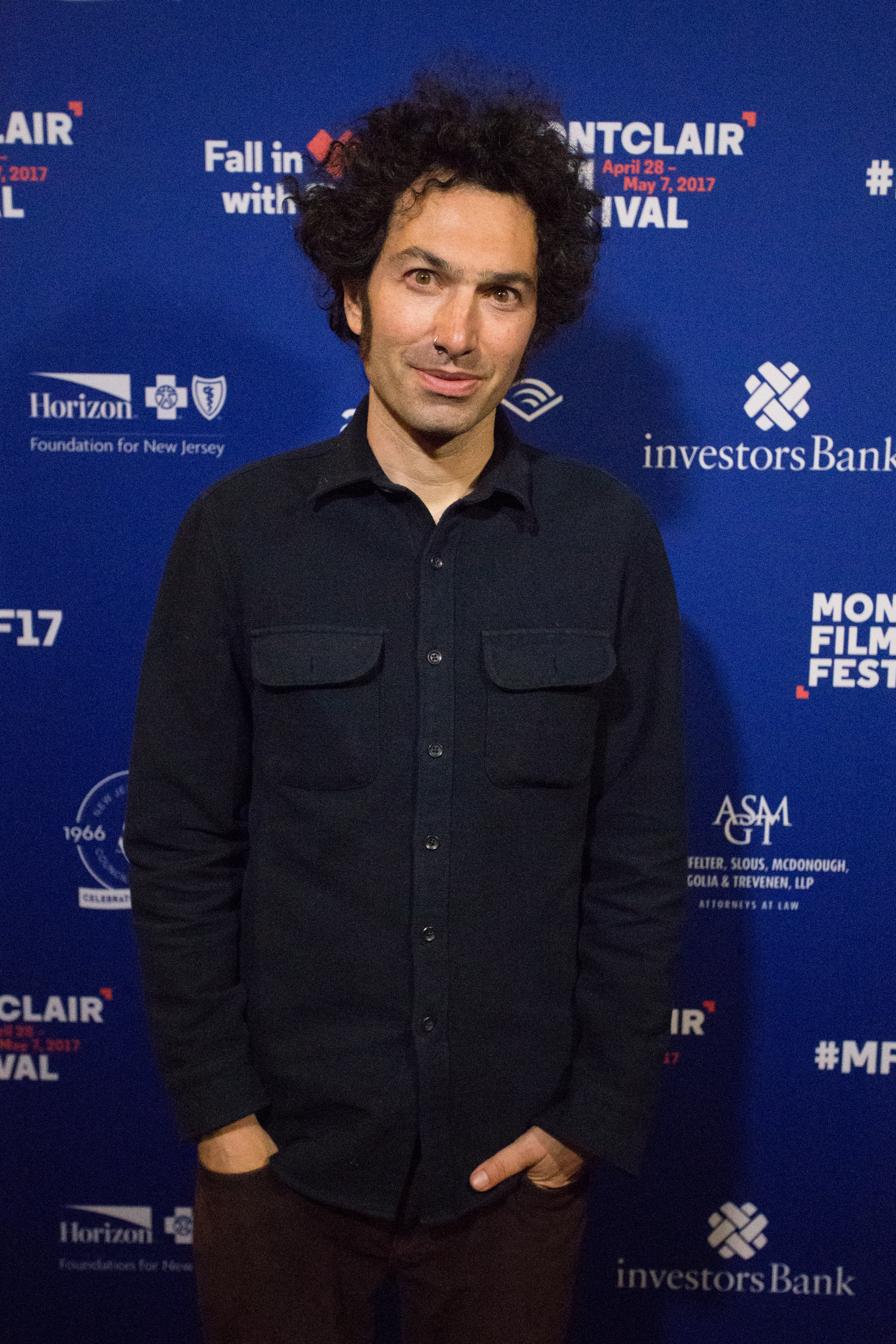 Azazel Jacobs photo by "Tony Turner / Montclair Film"